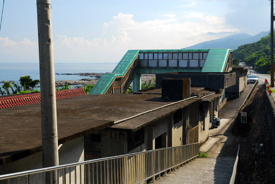 ShihCheng Station is a small local train station of Yilan Line, part of Taiwan's eastern rail line. It's located within the boundary of TouCheng Town, YiLan County. The station itself is positioned at a level lower than the road.